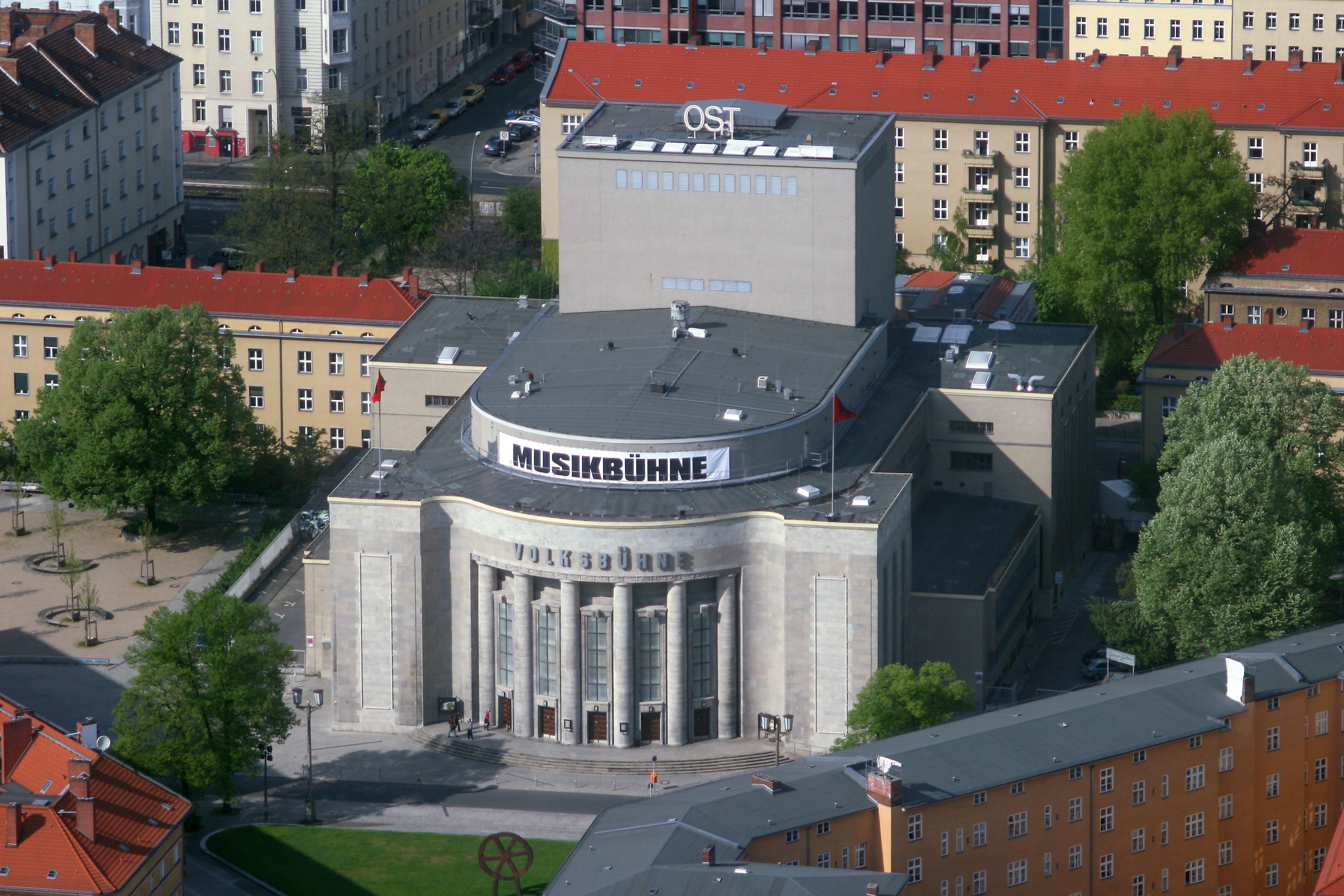 the theatre "Volksbühne" in Berlin, Germany